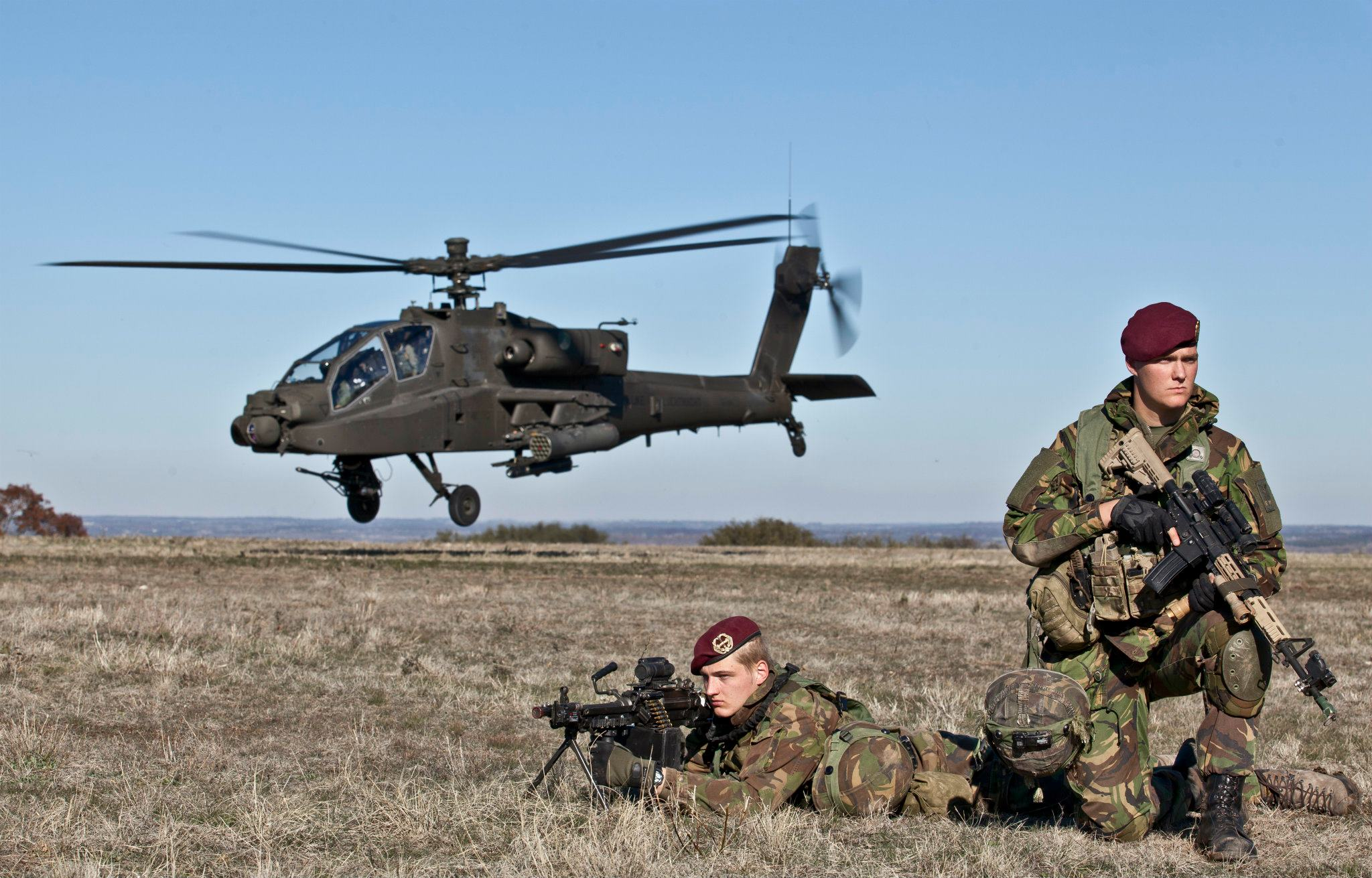 Dutch Apache AH-64